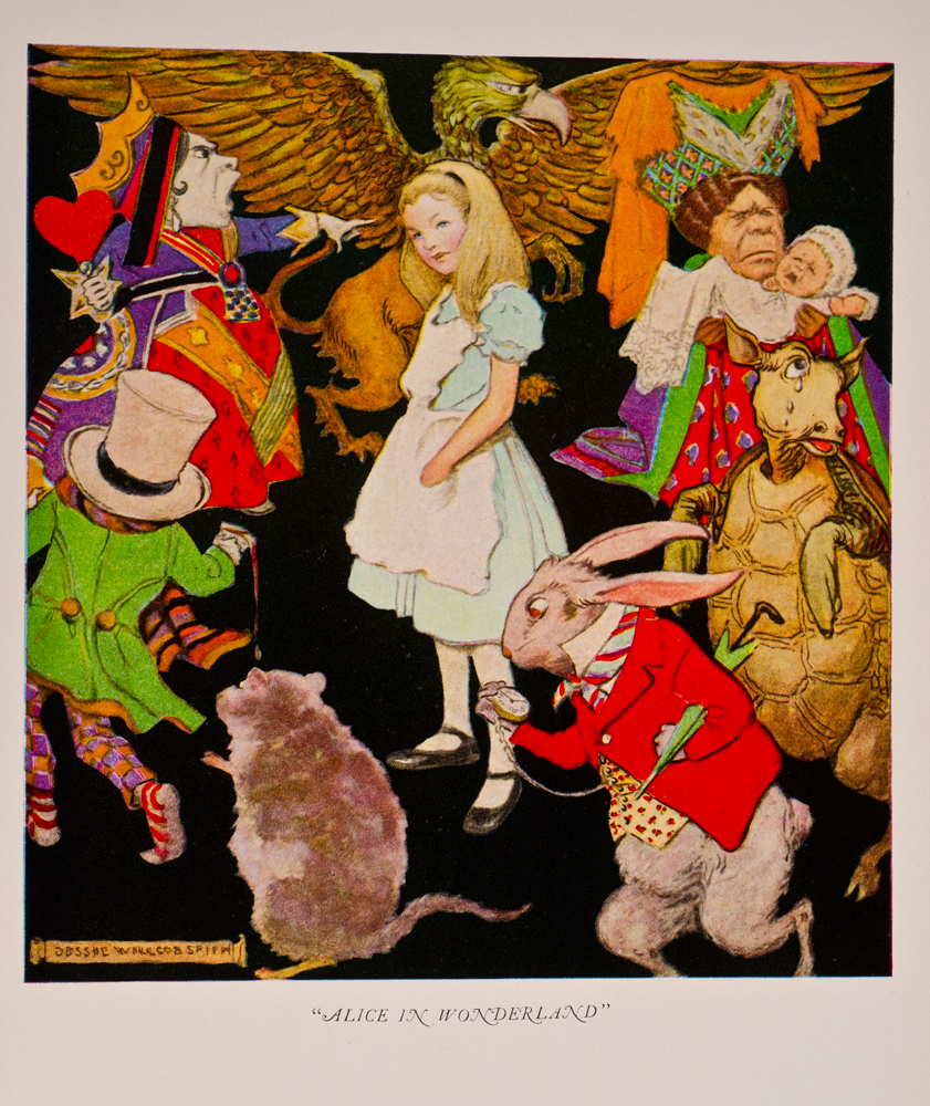 "Alice in Wonderland". Illustration from the cover and interior of the book Boys and Girls of Bookland from 1923, written by Nora Archibald Smith and illustrated by Jessie Willcox Smith.